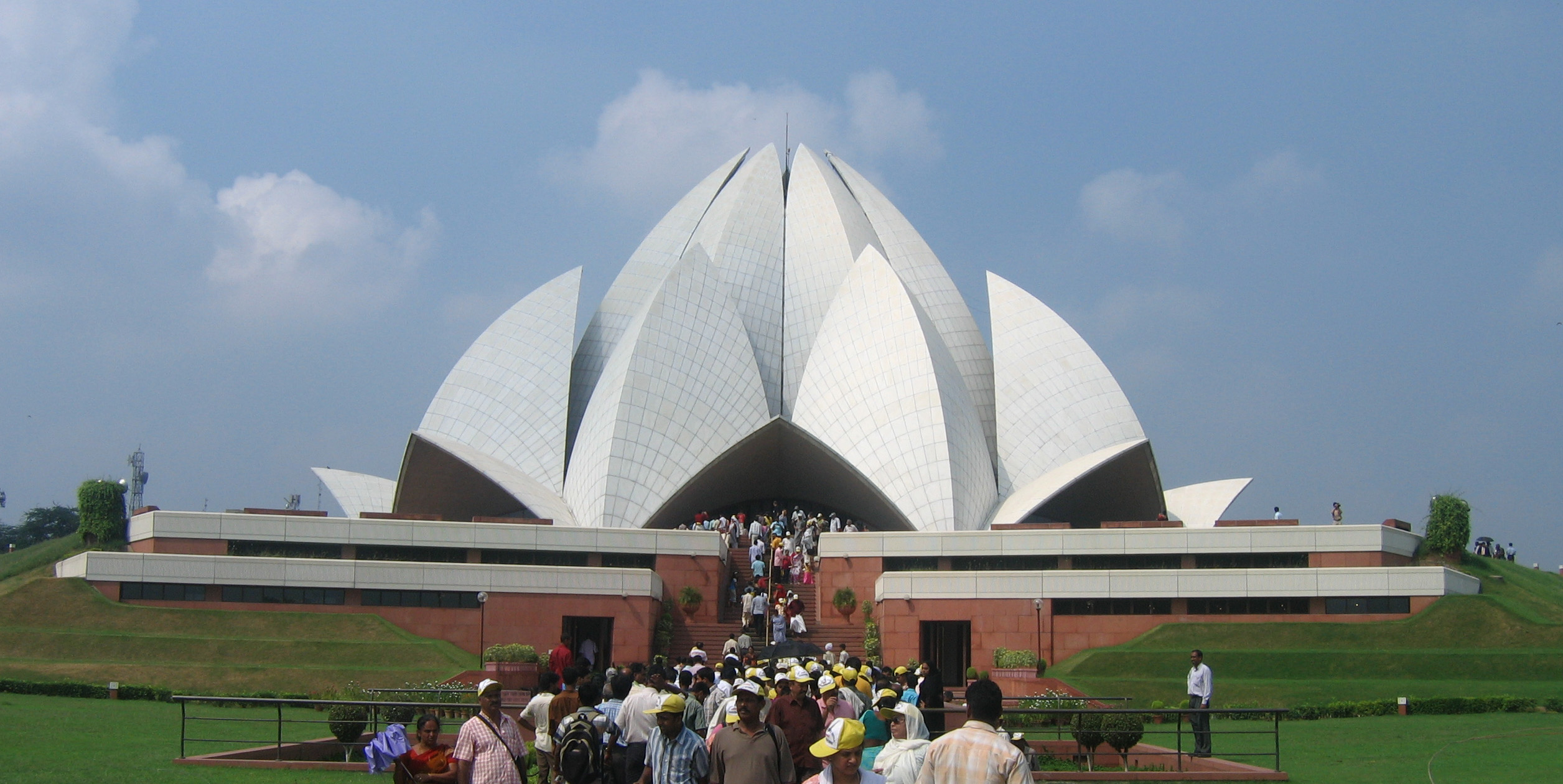 Lotus Temple - Delhi, various views